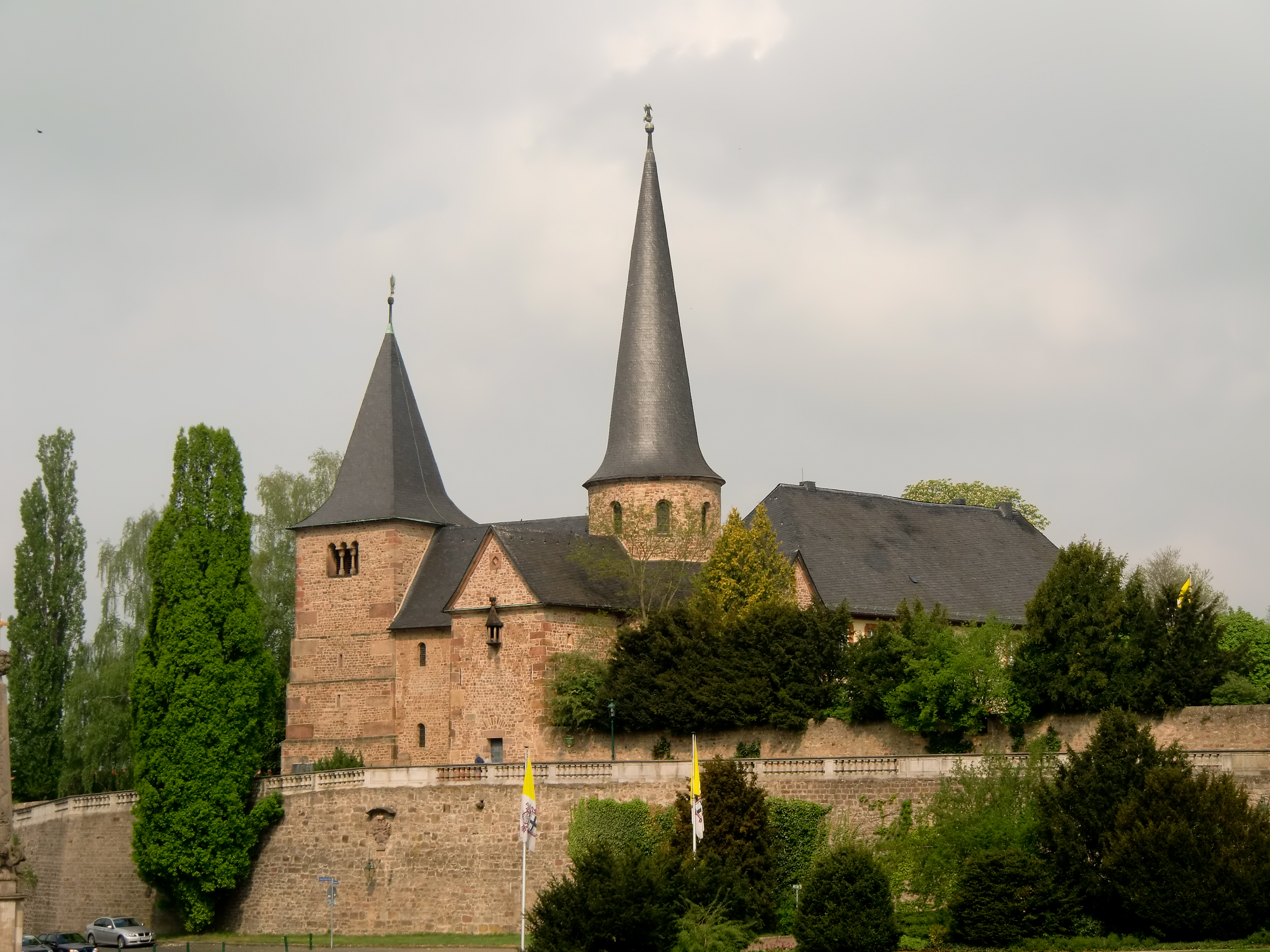 St. Michael's Church, Fulda, view from stairs to the cathedral square.